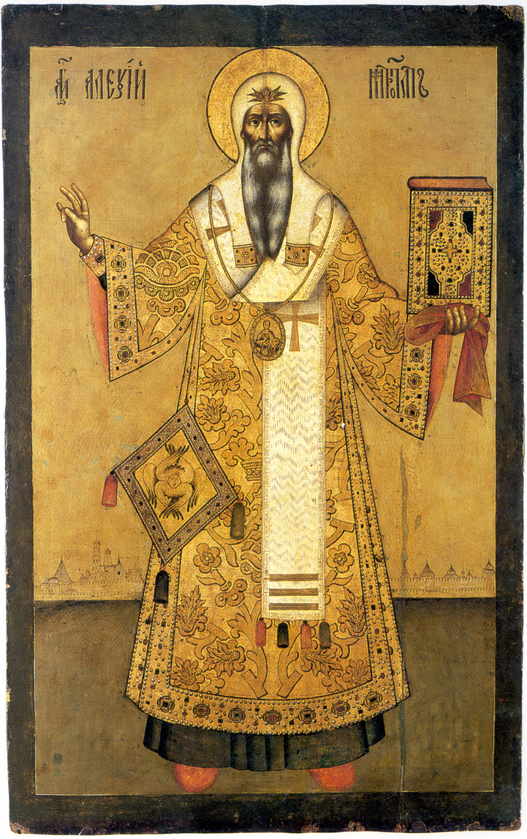 Alexius, Metropolitan of Moscow. ГТГ. 172 х 107 см.